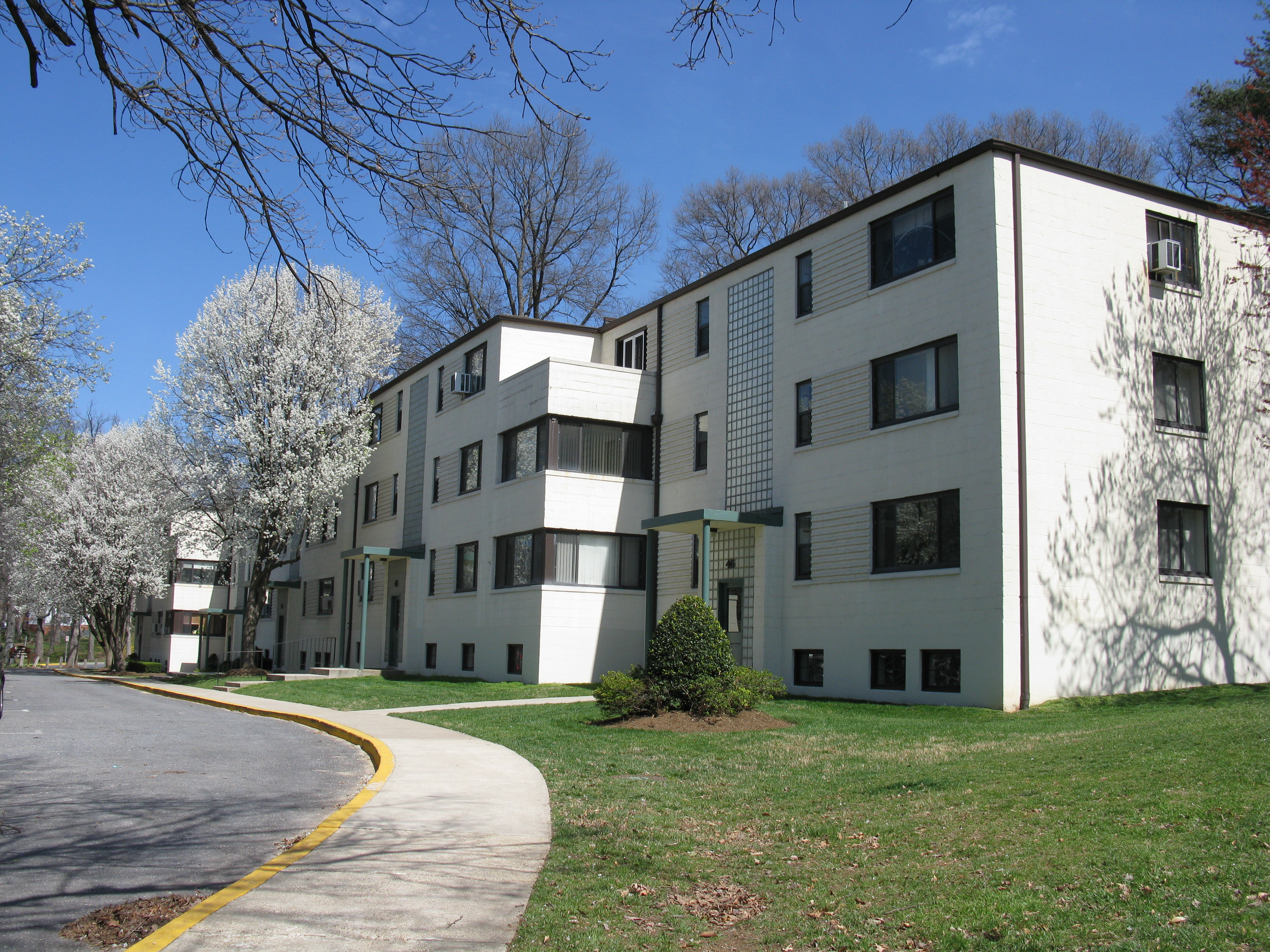 Apartments in Greenbelt, Maryland.